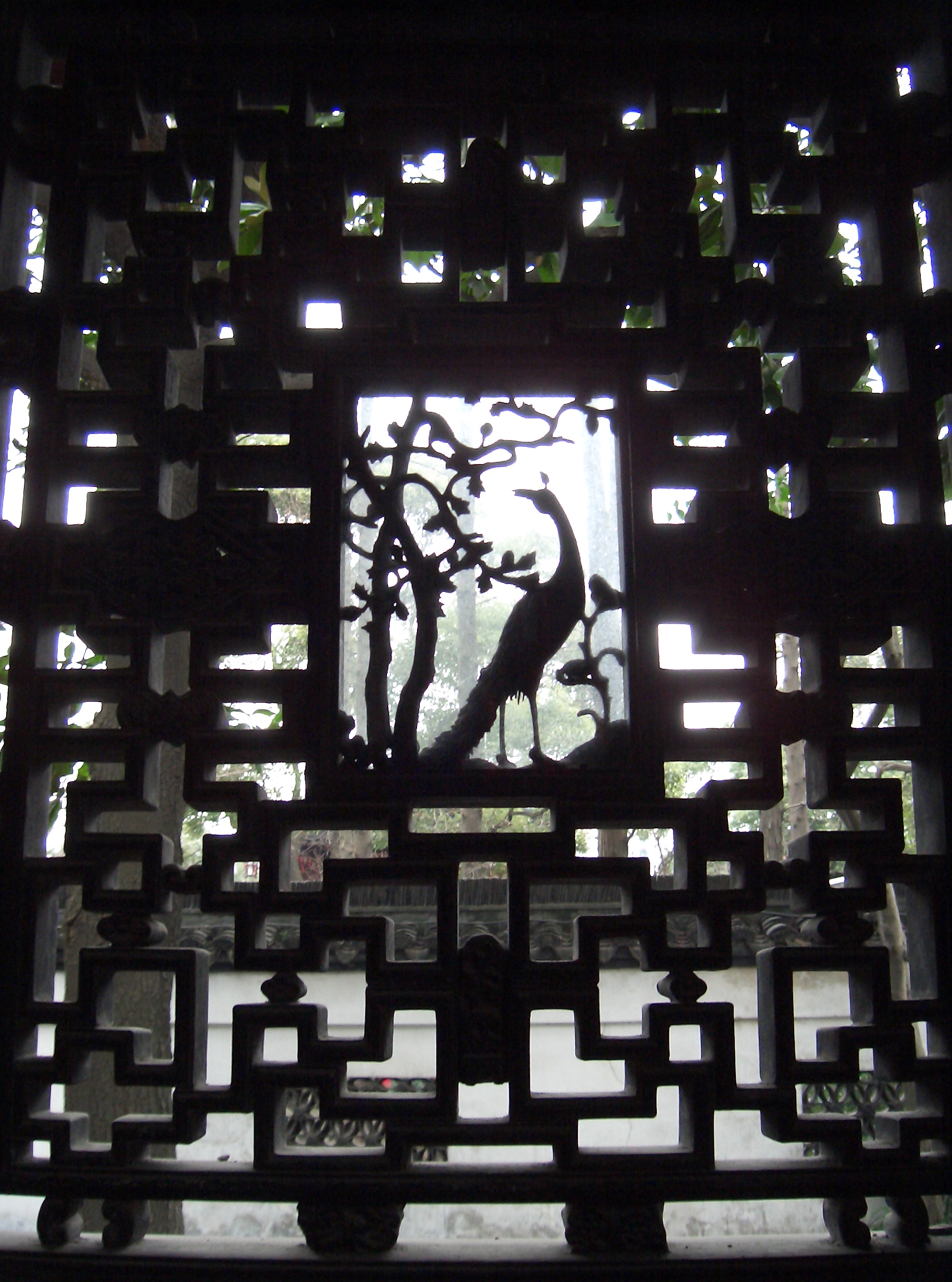 Detail of a 'window' at the Yuyuan Gardens (豫园) in Shanghai, China.